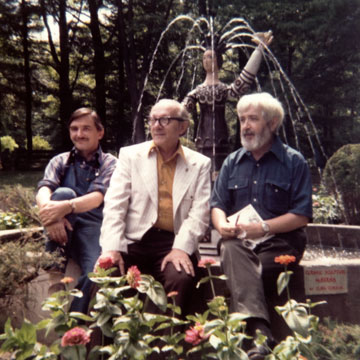 Lubomyr Hutsaliuk, Edward Kozak and Jacques Hnizdovsky at Soyuzivka in front of Slava Gerulak's sculpture "Mayana"